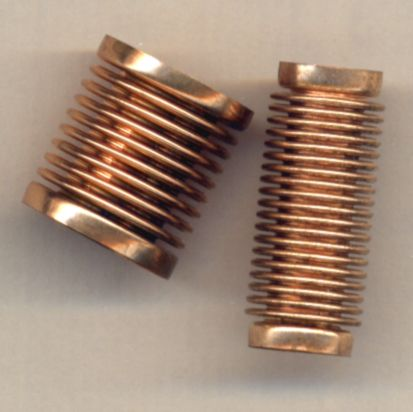 elastic bellow ?